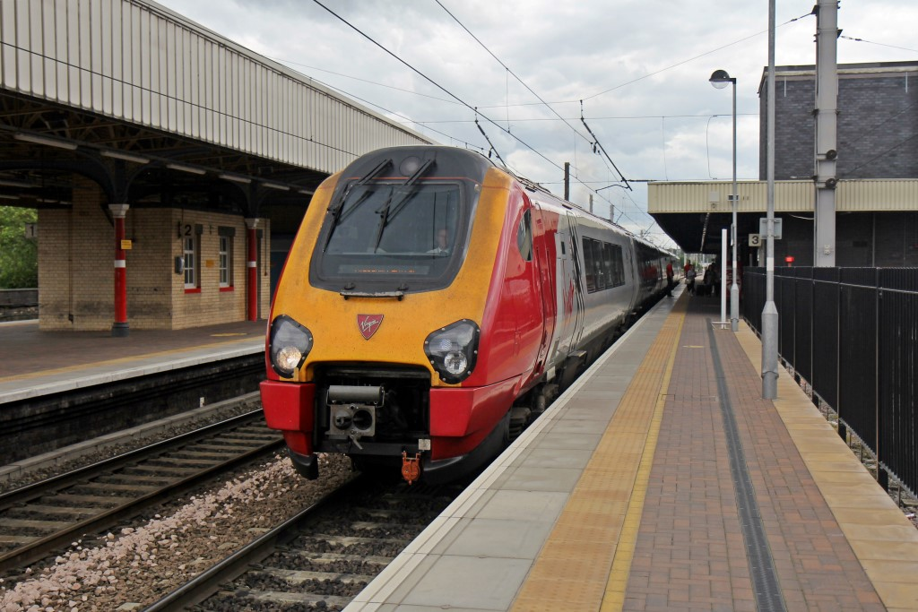 Virgin Voyager, Warrington Bank Quay railway station